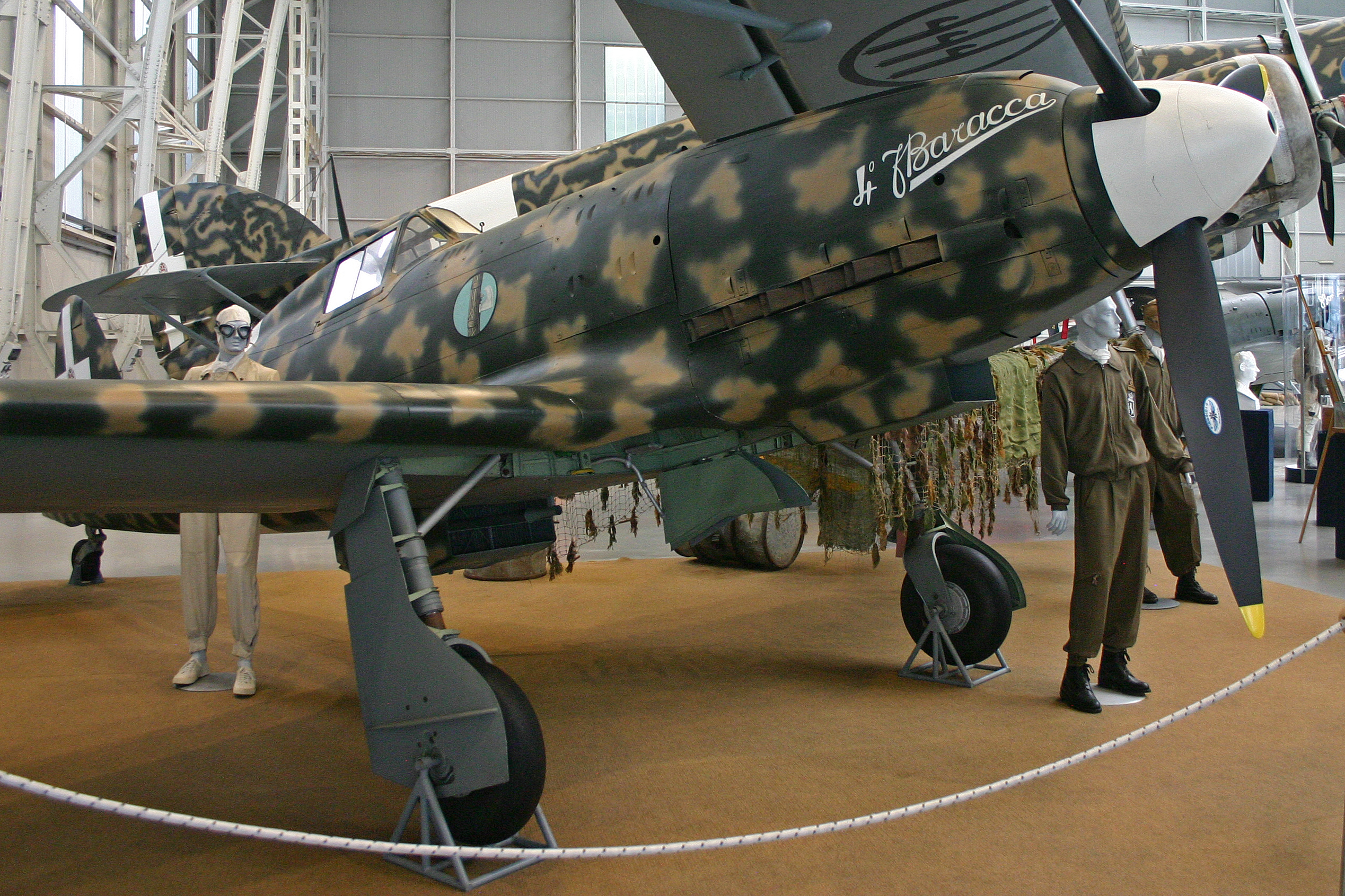 Displayed in Hangar BADONI.